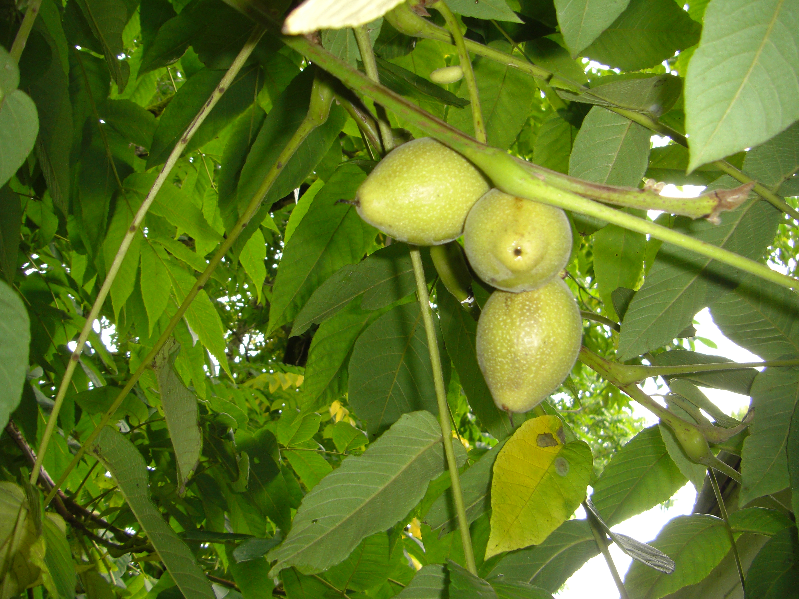 Nuts of a mandshurian walnut tree in front of the coach house of Cīrava Palace, Latvia.